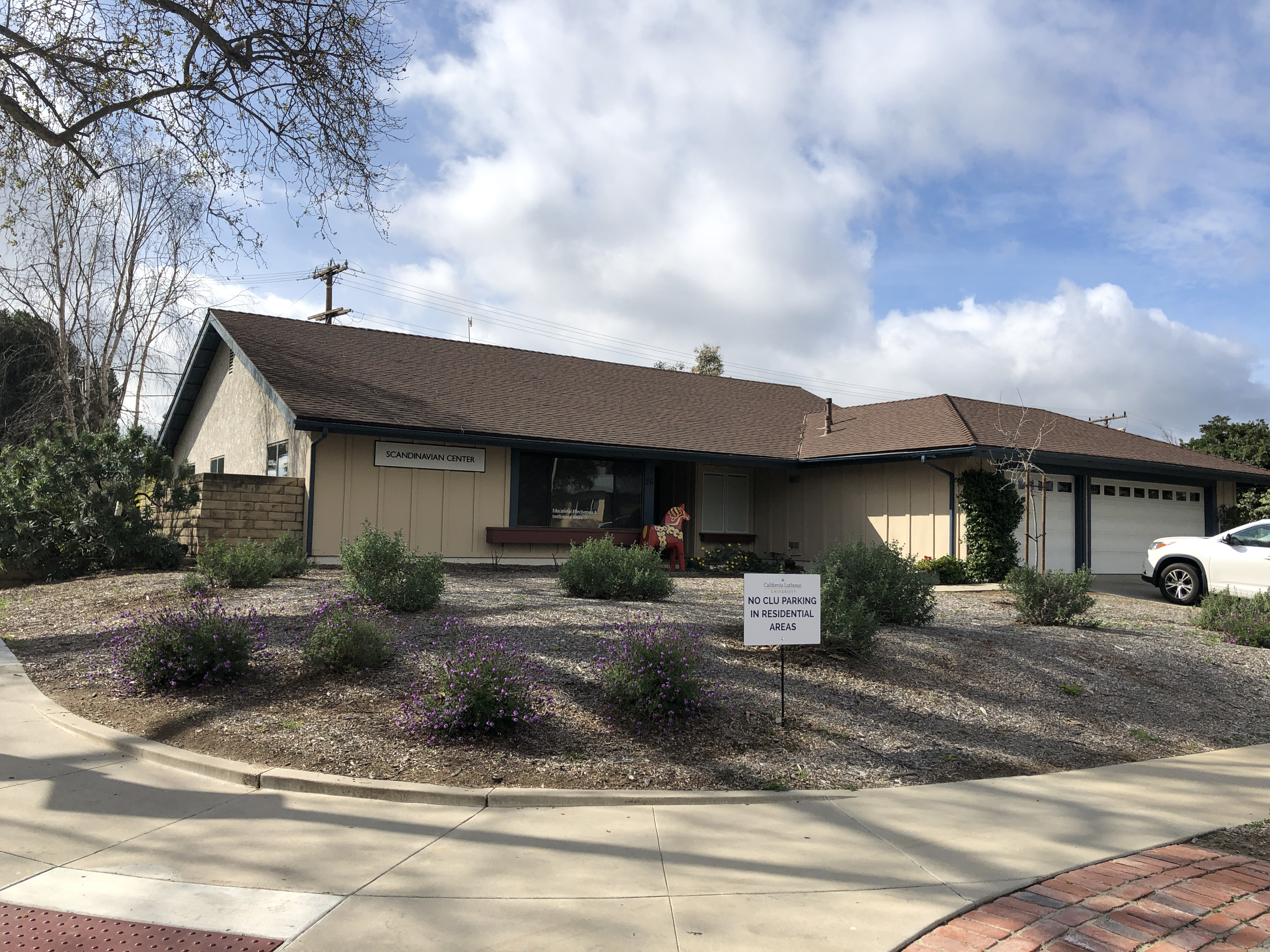 Scandinavian Center at the campus of California Lutheran University in Thousand Oaks, California.